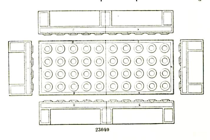 Schematic drawing of an ancient Egyptian offering table. The table, made from sandstone, was unearthed in Karnak Great Temple (north court) and bears the name of Seankhibre Ameny-Intef-Amenemhat, a pharaoh of the 13th Dynasty (Second Intermediate Period). Now in Cairo Egyptian Museum (CG 23040 / JE 3423, 39804).